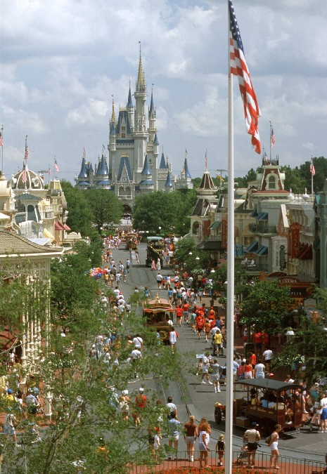 Main Street at the Magic Kingdom, Walt Disney World Resort, Lake Buena Vista, Florida, USA. The photo is taken presumably from the roof of the Walt Disney World Railroad, and the US Flag is in the foreground. In the background is the regal Cinderella Castle.